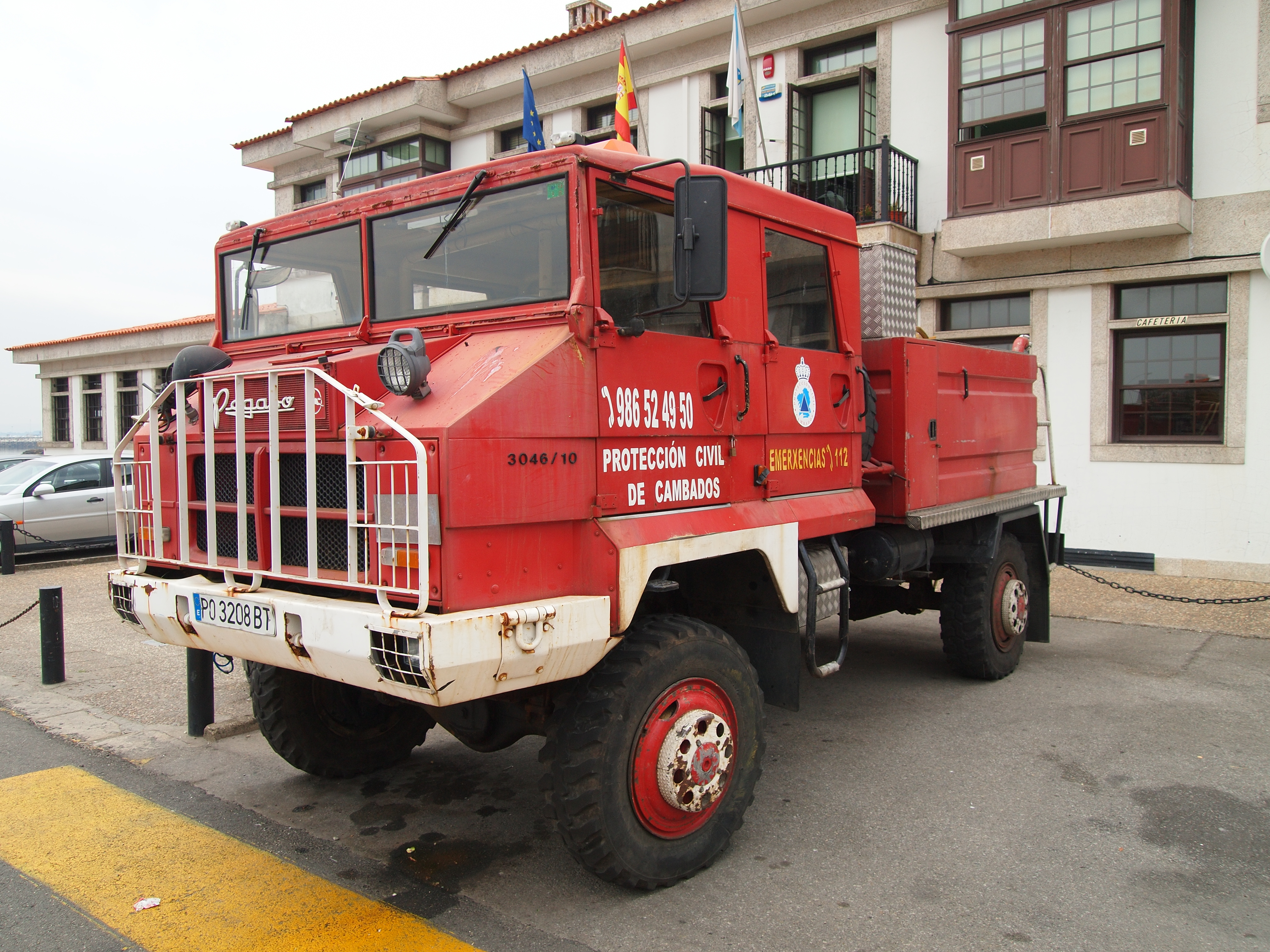 Pegaso 3046/10 fire truck, seen at Cambados (Pontevedra, Spain). Plates indicate year 2000, so it's probably a truck of military origin, inmatriculated afterwards for civil use